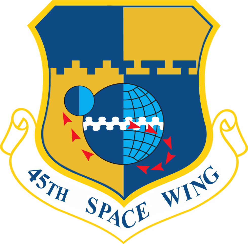 Emblem of the 45th Space Wing, wing of the United States Air Force